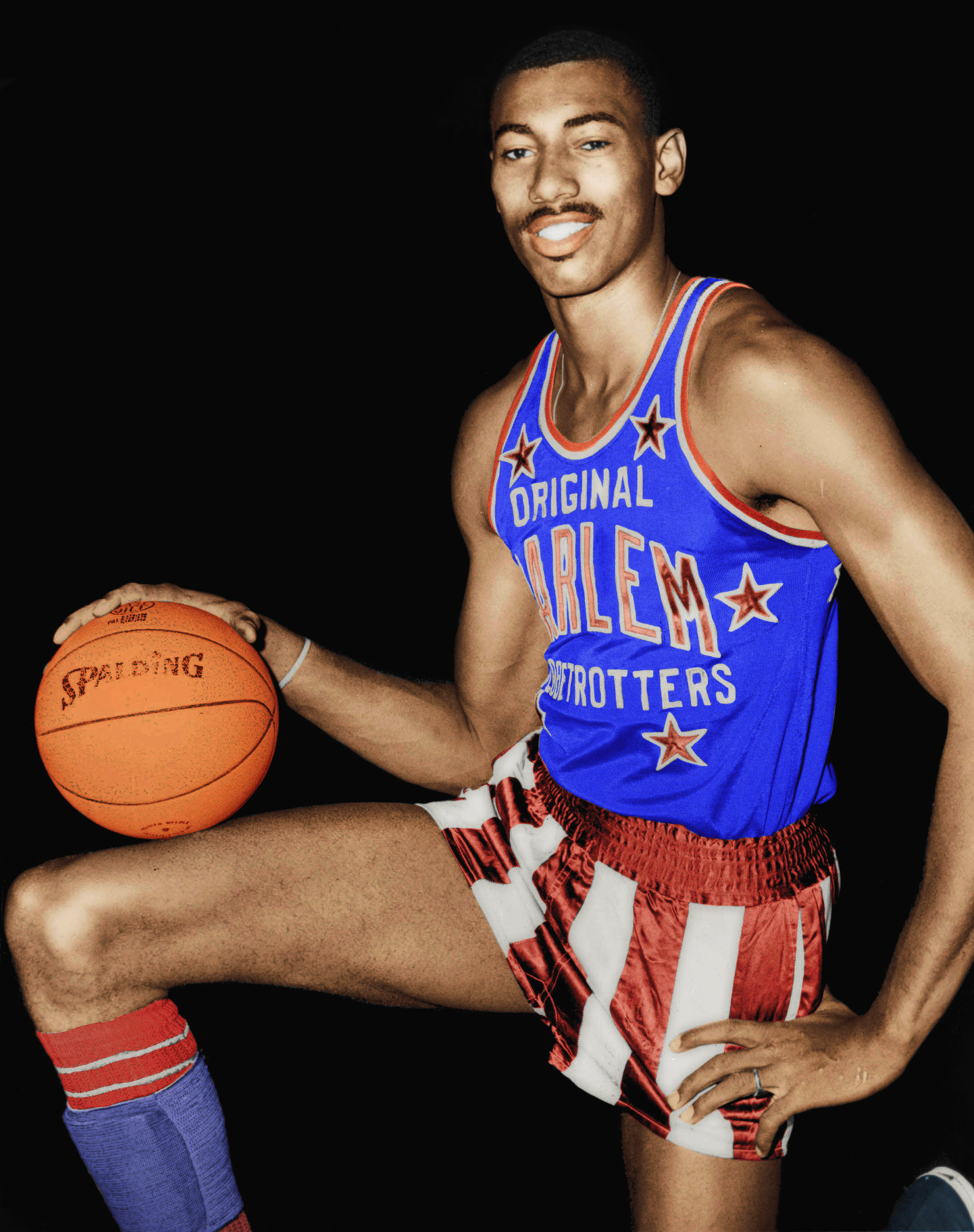 edited (colour) picture Image:Wilt Chamberlain.jpg Wilt Chamberlain, American basketball player wearing uniform of Harlem Globetrotters.